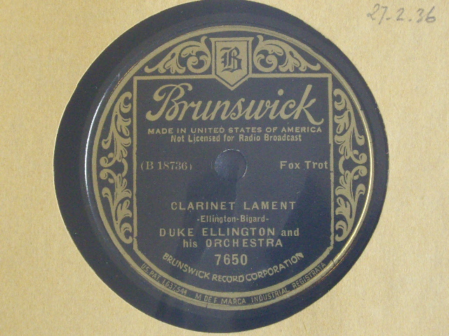 Duke Ellington Orchestra: Clarinet Lament